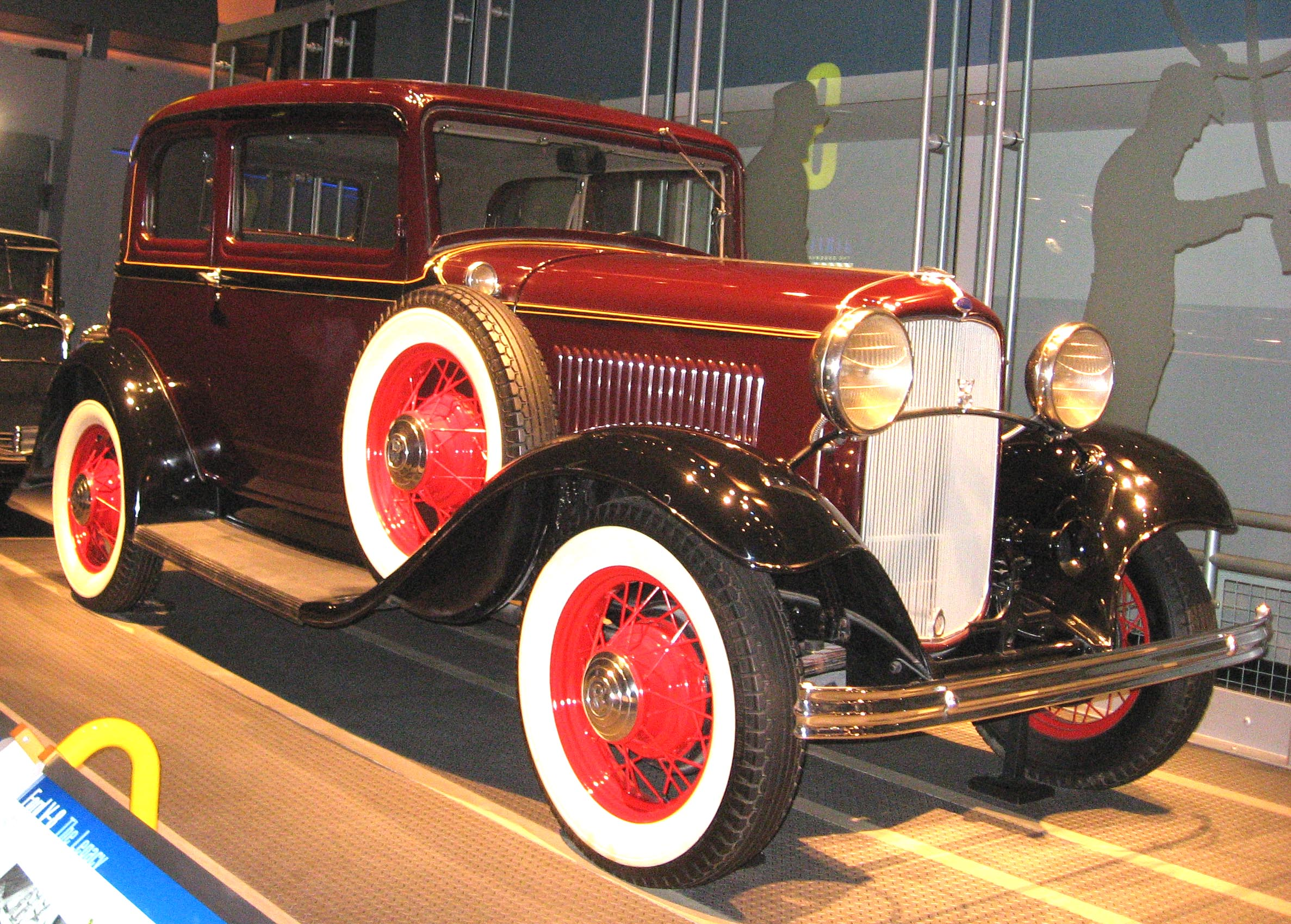 1932 Ford V8 Model 18 Standard Tudor Sedan photographed in Dearborn, Michigan, USA.